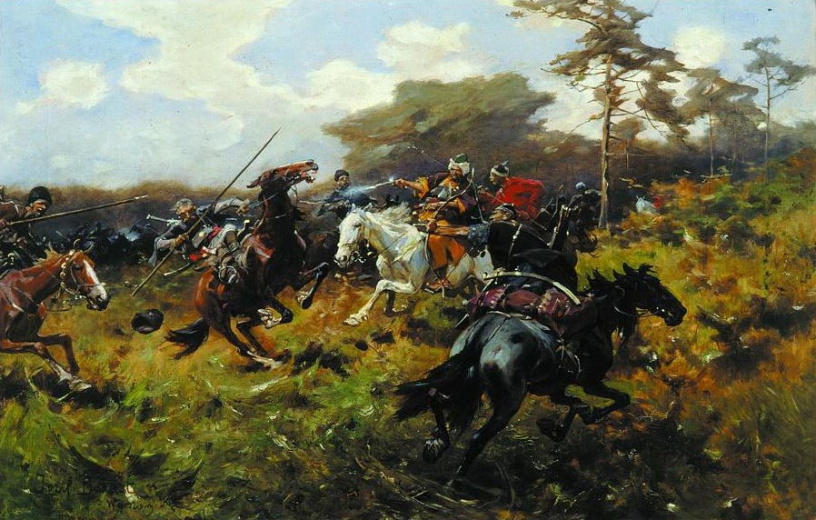 Józef Brandt, "Battle against Tatars", c. 1890, oil on canvas, 46.5 x 71 cm